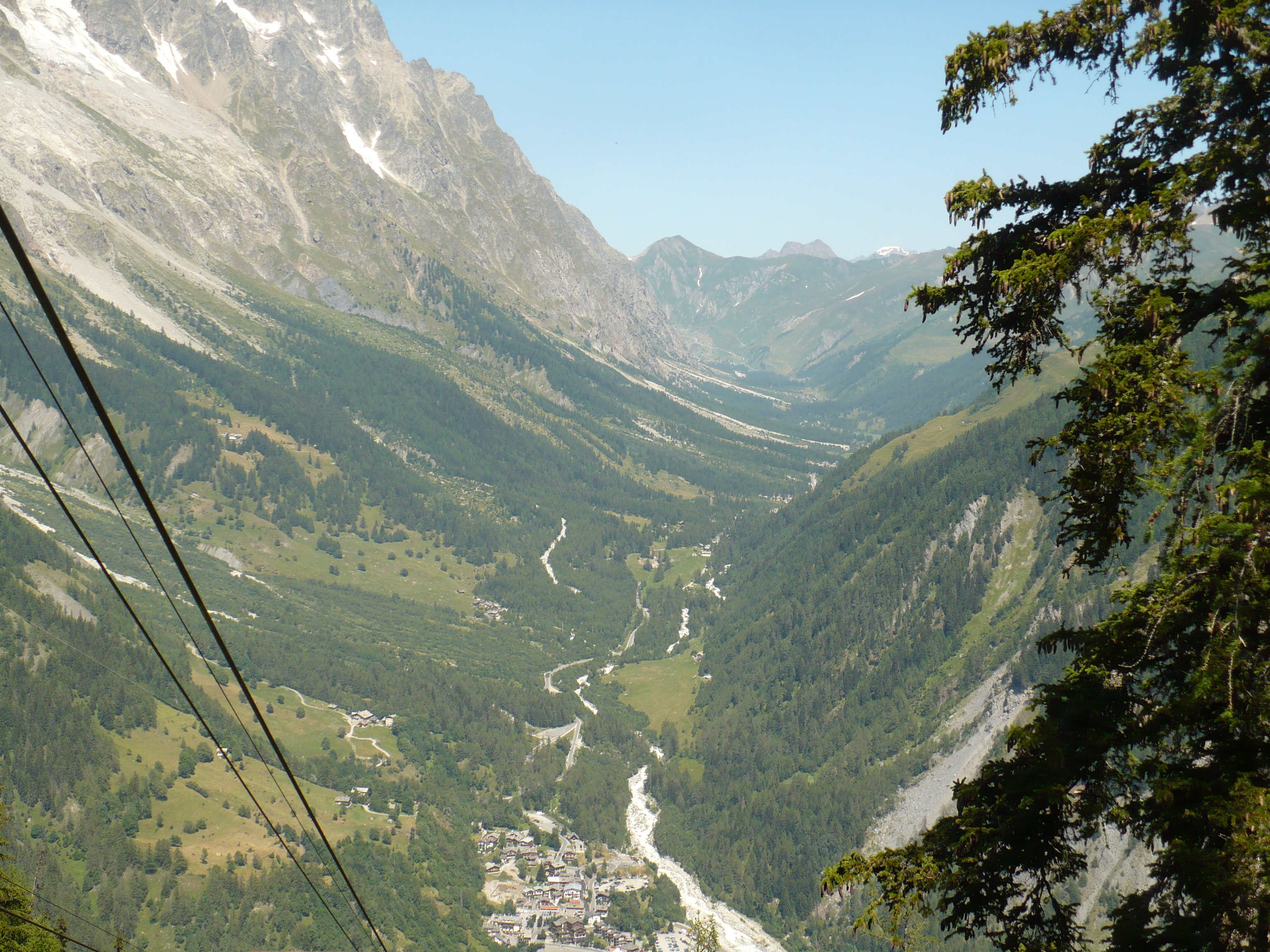 Val Ferret - Aosta Valley - Italy